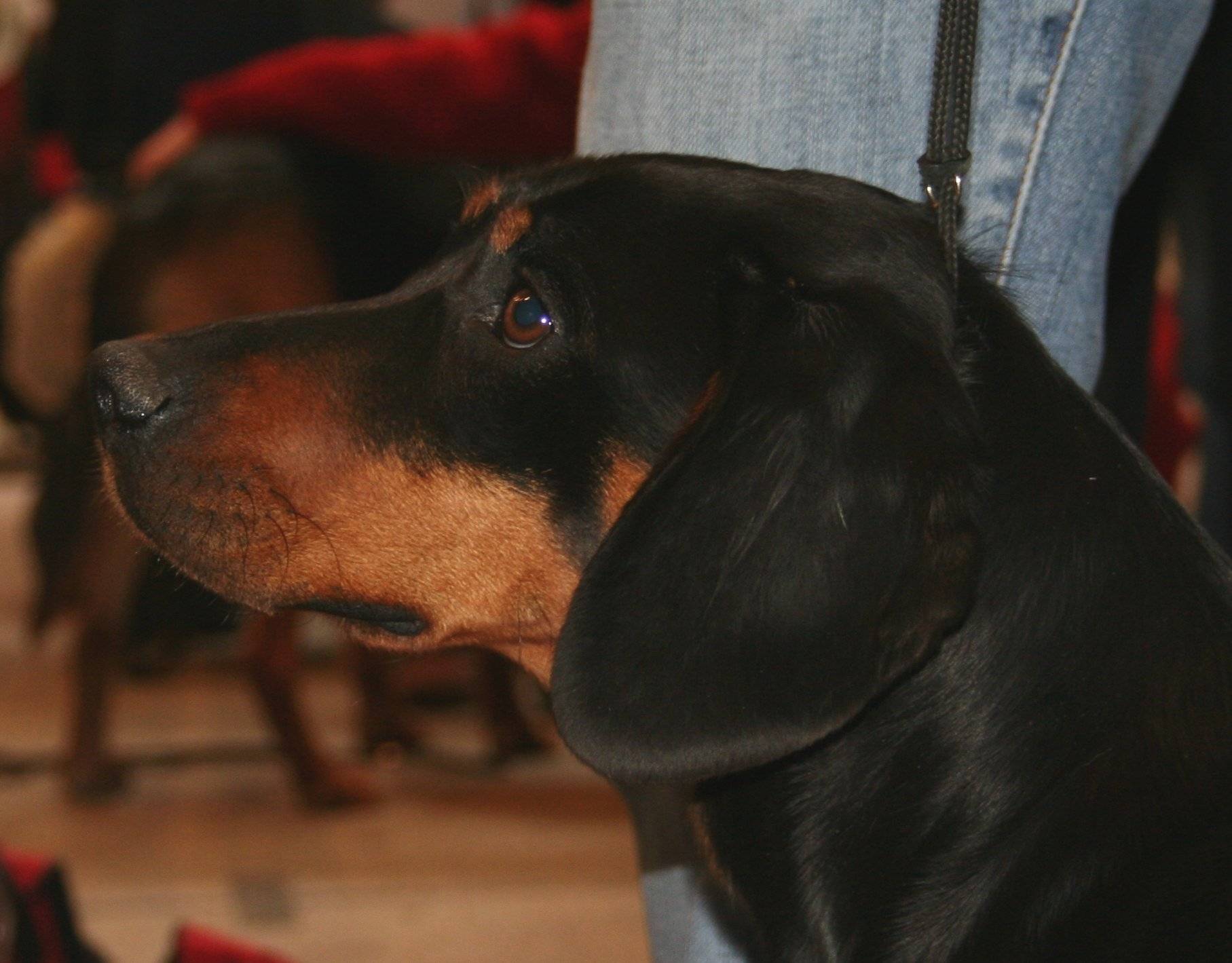 Slovakian Hound during dogs show in Katowice, Poland